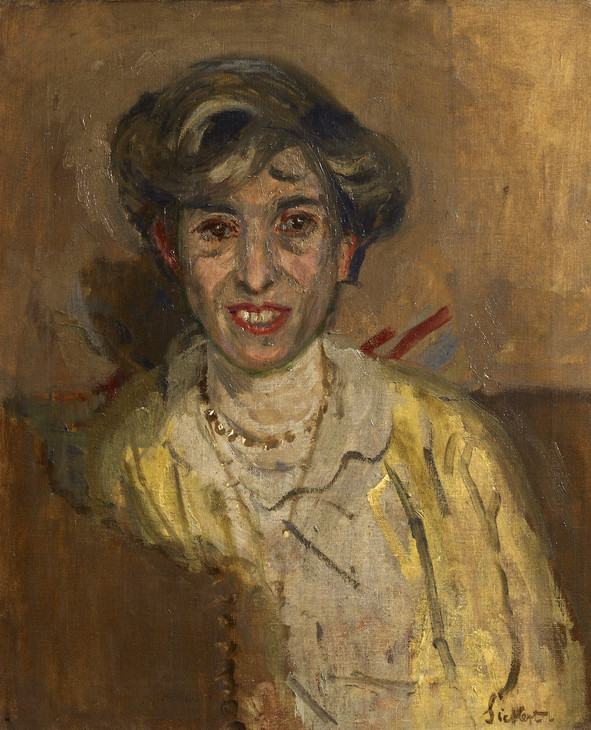 Walter Richard Sickert, Portrait of Ethel Sands, 1913-1914